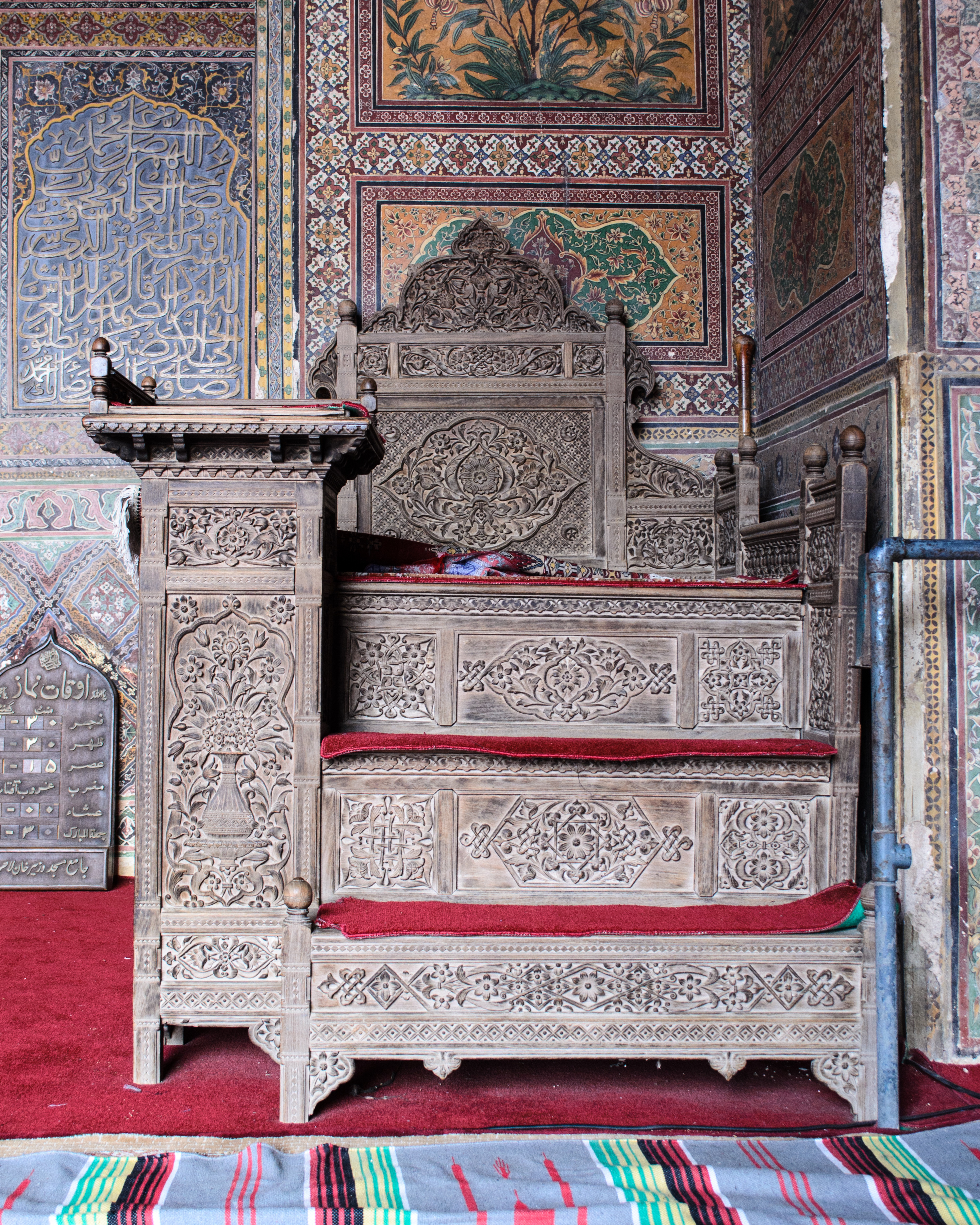 Wazir Khan Mosque; This pulpit was presented by his excellency Lord Curzon Of Kedleston Viceroy And Governor General of India, To the Wazir Khan’s Mosque in Memory of His First Official Visit to Lahore in April 1899 This is a photo of a monument in Pakistan identified as the PB-100